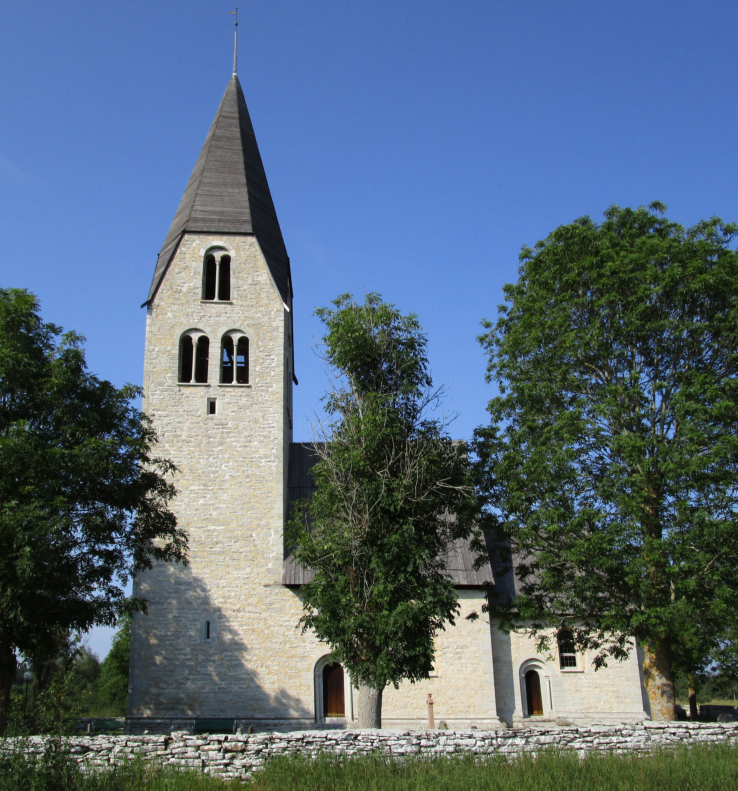 Ganthem Church Gotland Sweden